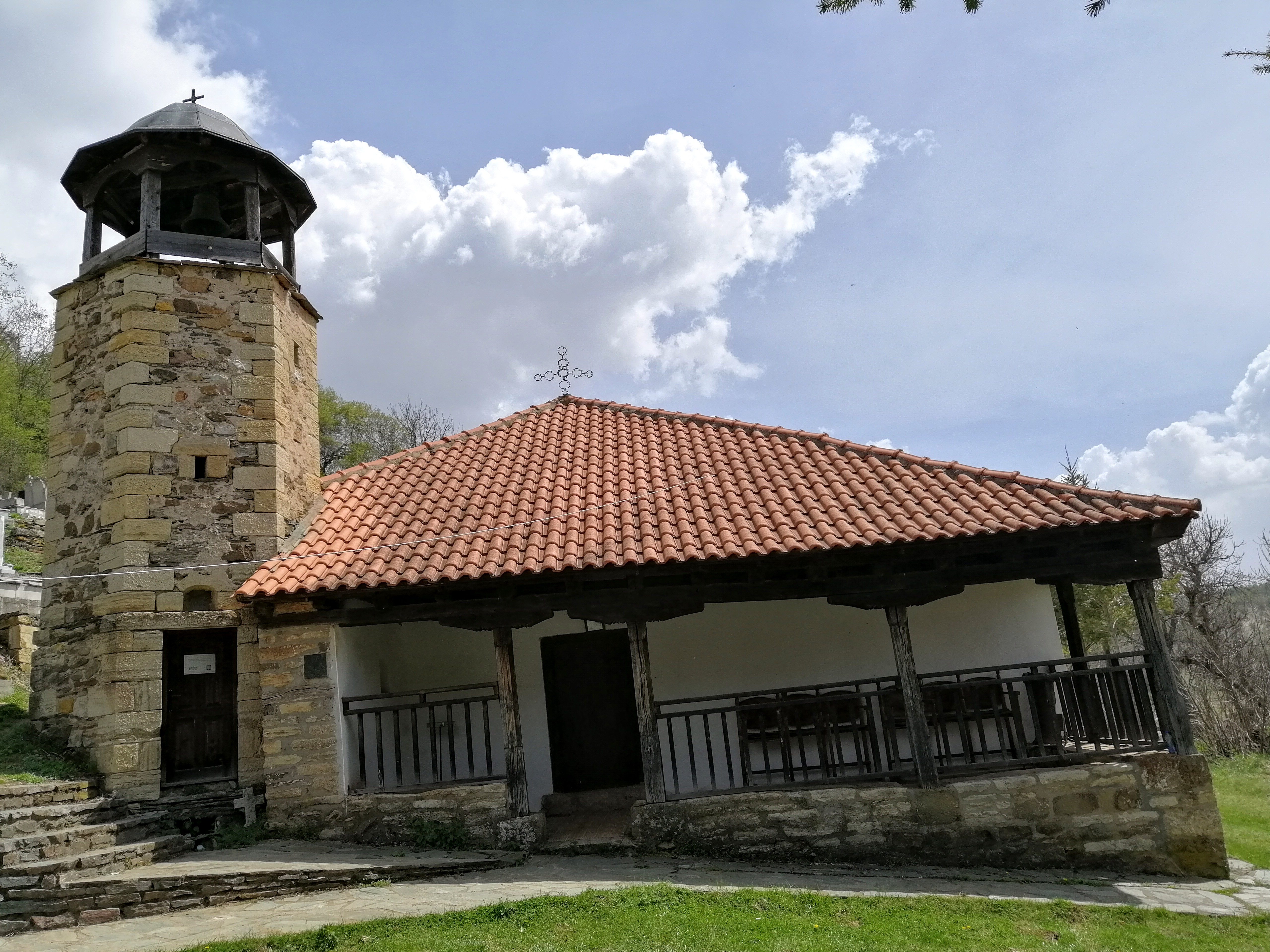 View of the St. Nicholas Church of the village Trnovo